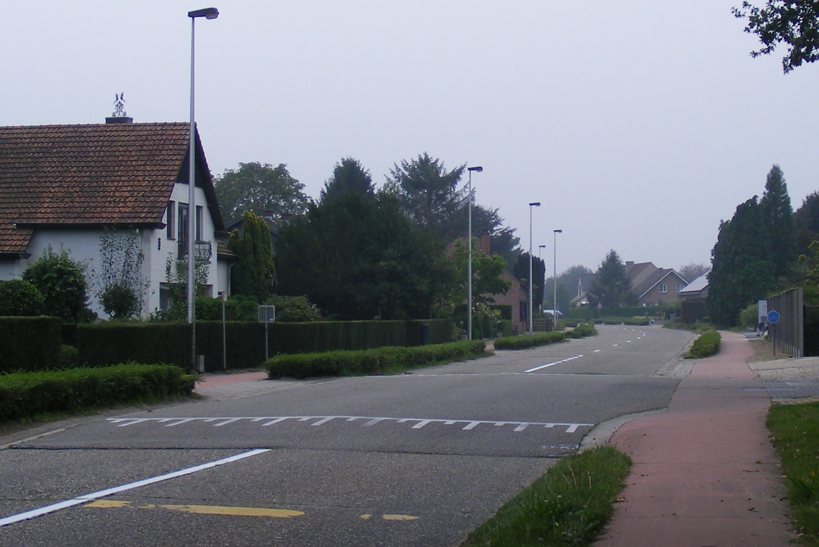 Typical landroad in a suburbian region of the Flemish part of Belgium: cycletracks on both sides, no sidewalk